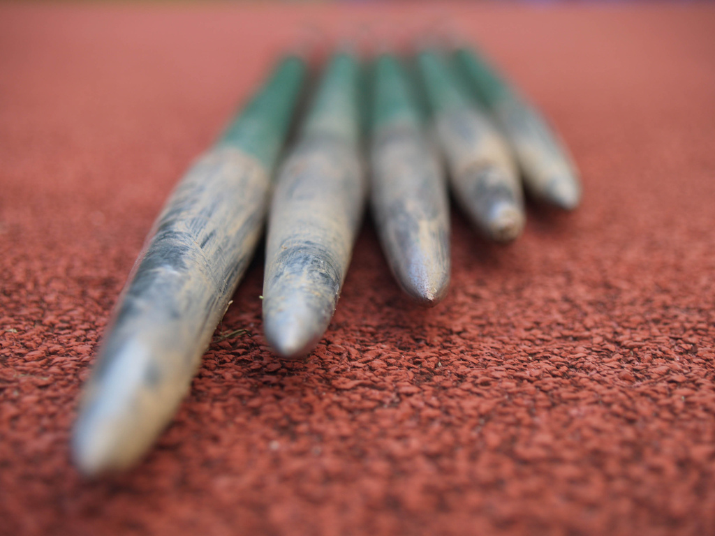 Looking at me, i'm admiring the beauty. Javelin. track and field perspective